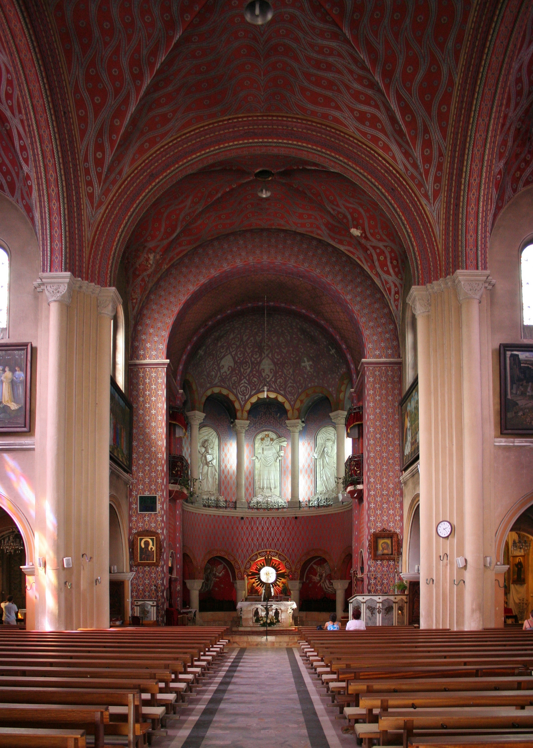 Views of Minsk (Belarus). Catholic St. Simeon and Helena church.